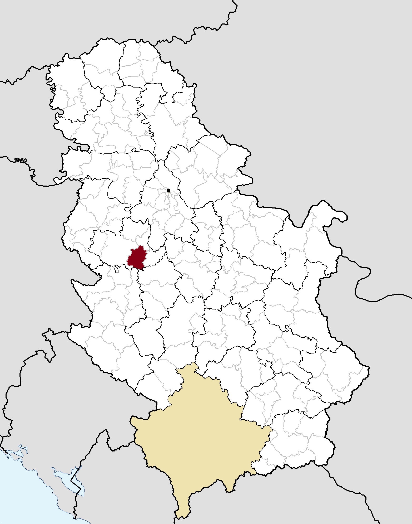 Municipal location in Serbia